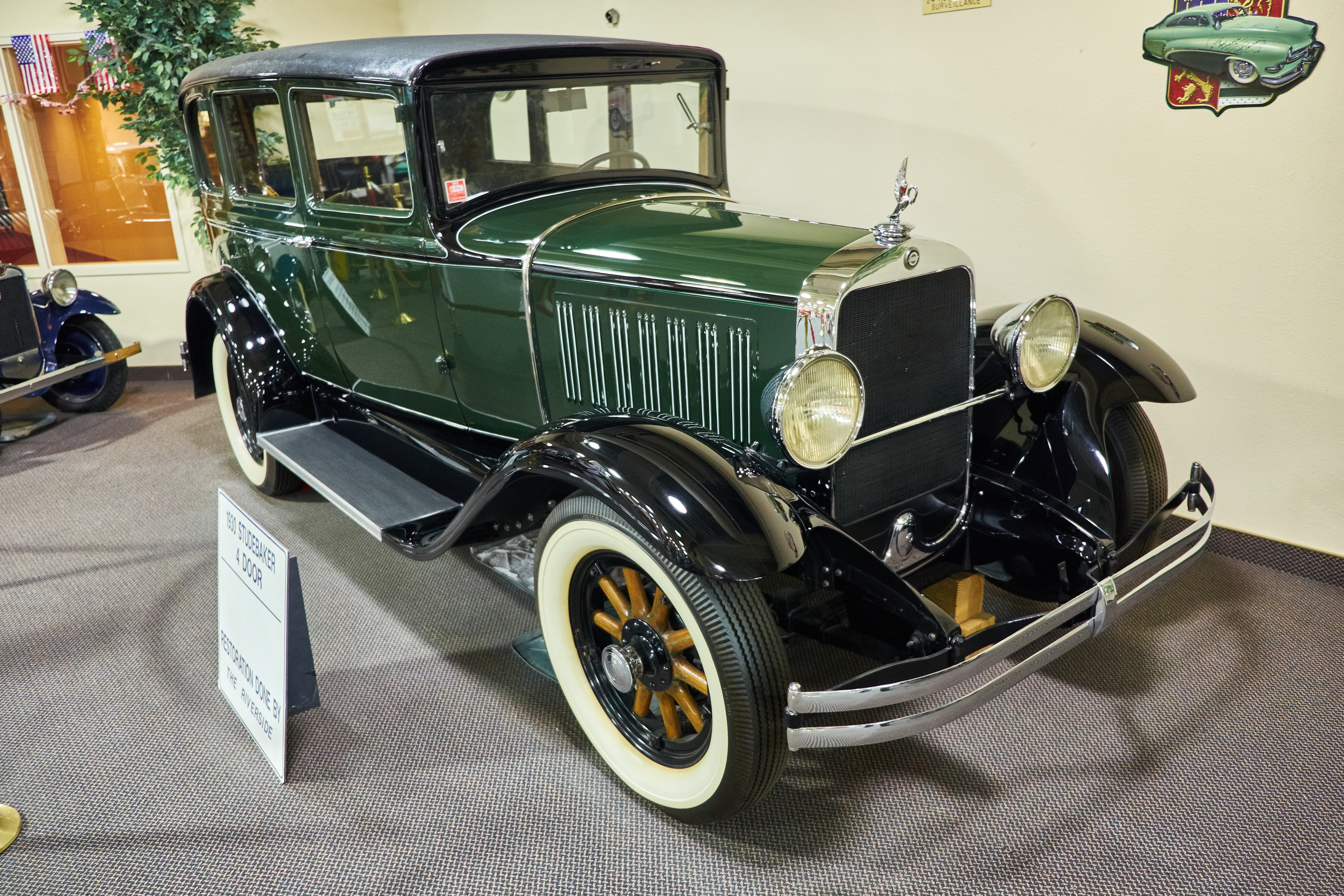 1930 Studebaker Director Sedan